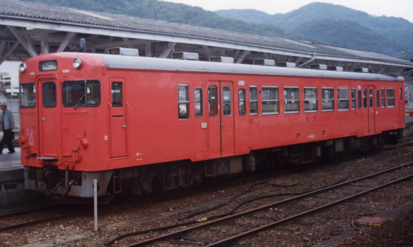 JR West KiHa 53 1 DMU car at Tsuyama Station